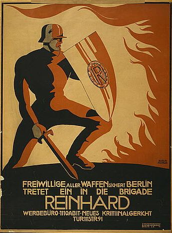 Poster shows a soldier holding a sword and shield with the letter R on it, facing flames. Text: Volunteers of all weapons, secure Berlin. Enlist in the Reinhard Brigade.